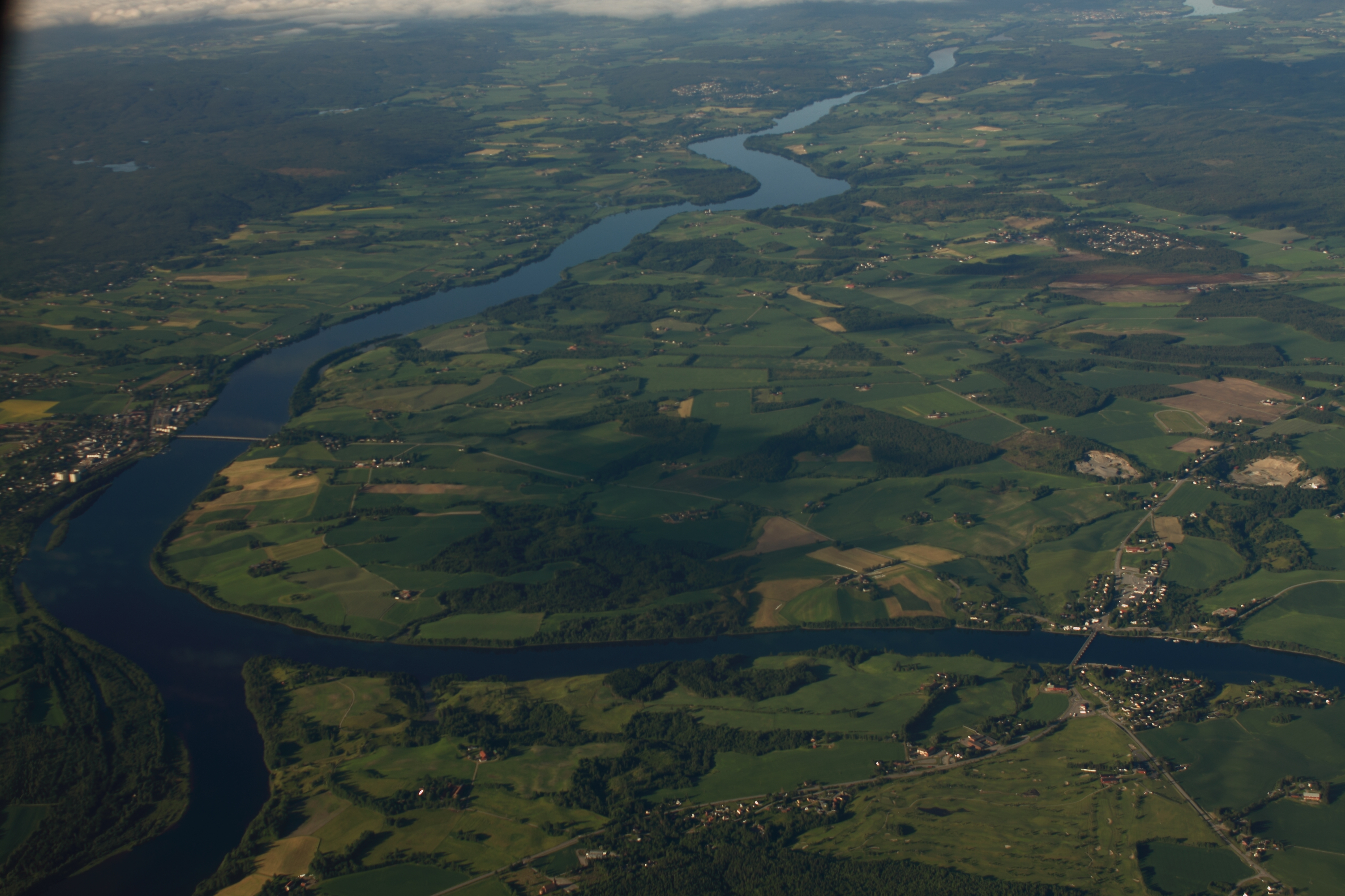 The river Glomma and main tributary Vorma meet north of Årnes, Akershus, Norway.